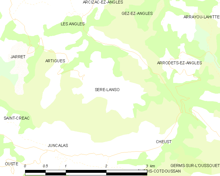 Map of French municipality